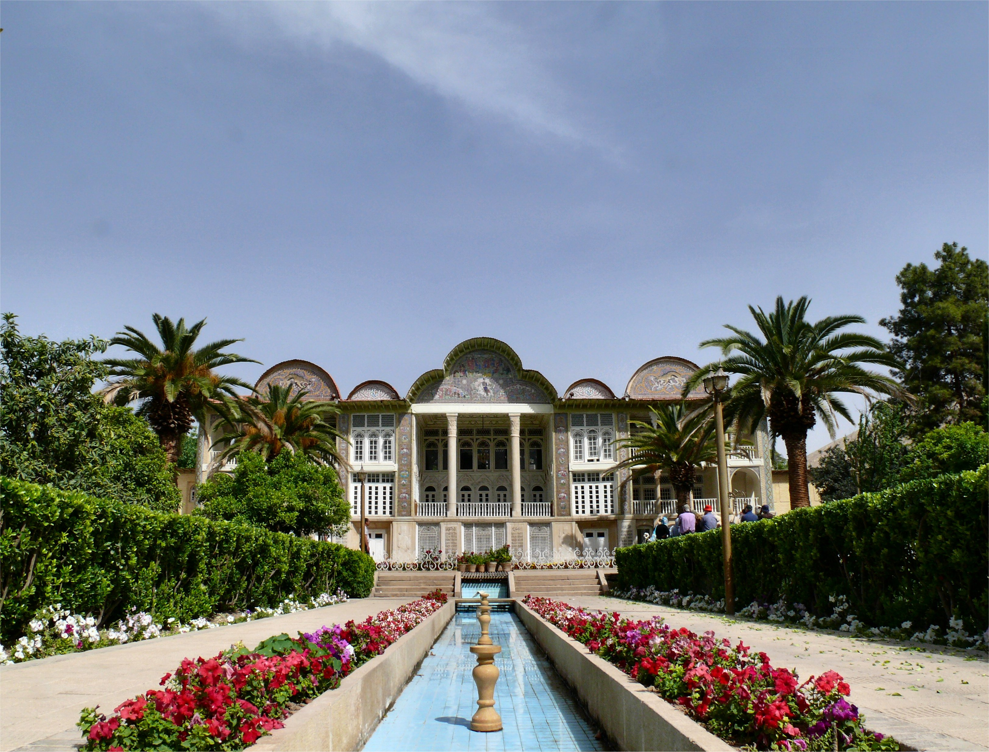 I needed to say goodbye to my most faved garden in my 2nd heartcity before leaving. The Eram garden at Shiraz, Fars province, Iran, April 2009.